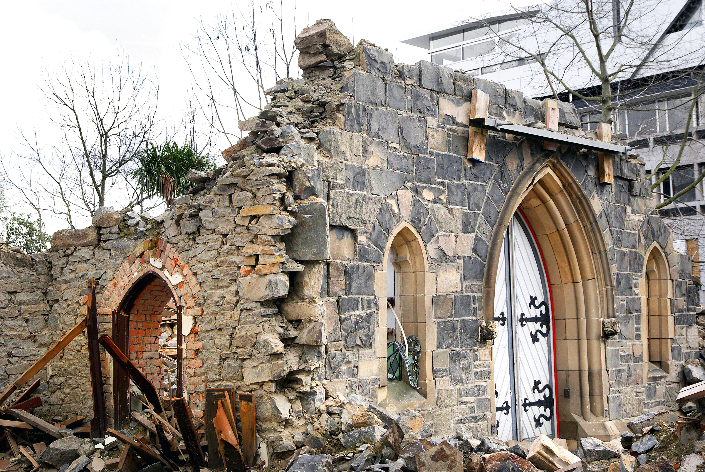 The Durham Street Methodist Church in Christchurch was the earliest stone church constructed in the Canterbury Region of New Zealand. It is registered as a "Historic Place – Category I" by the New Zealand Historic Places Trust. The church was severely damaged by an earthquake on 4 September 2010, but collapsed during a following earthquake on 22 February 2011, killing three workers who were removing the organ.